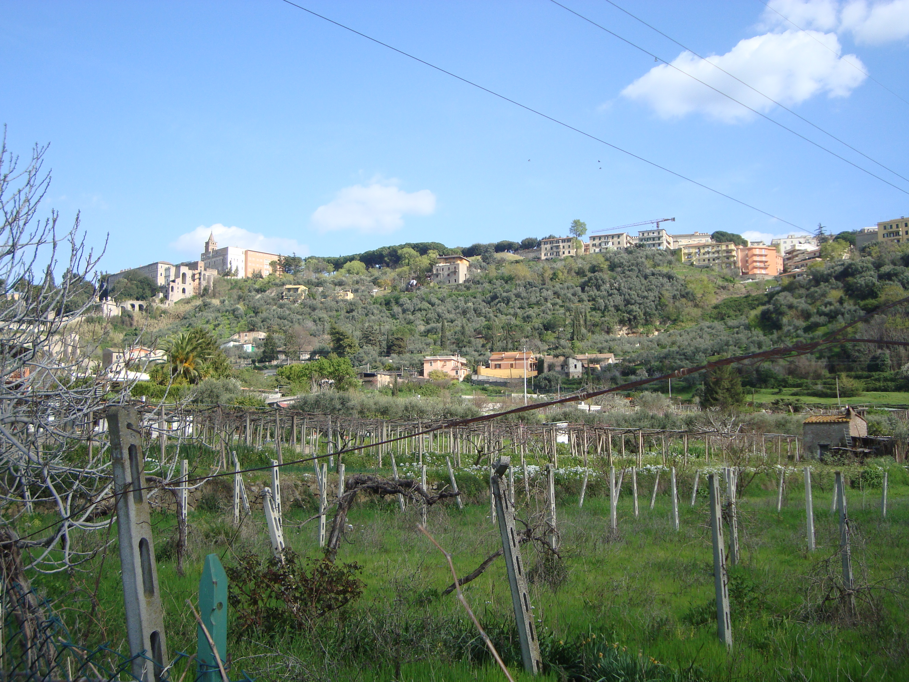 Culture of the vine in Tivoli particularly the local grape named pizzutello